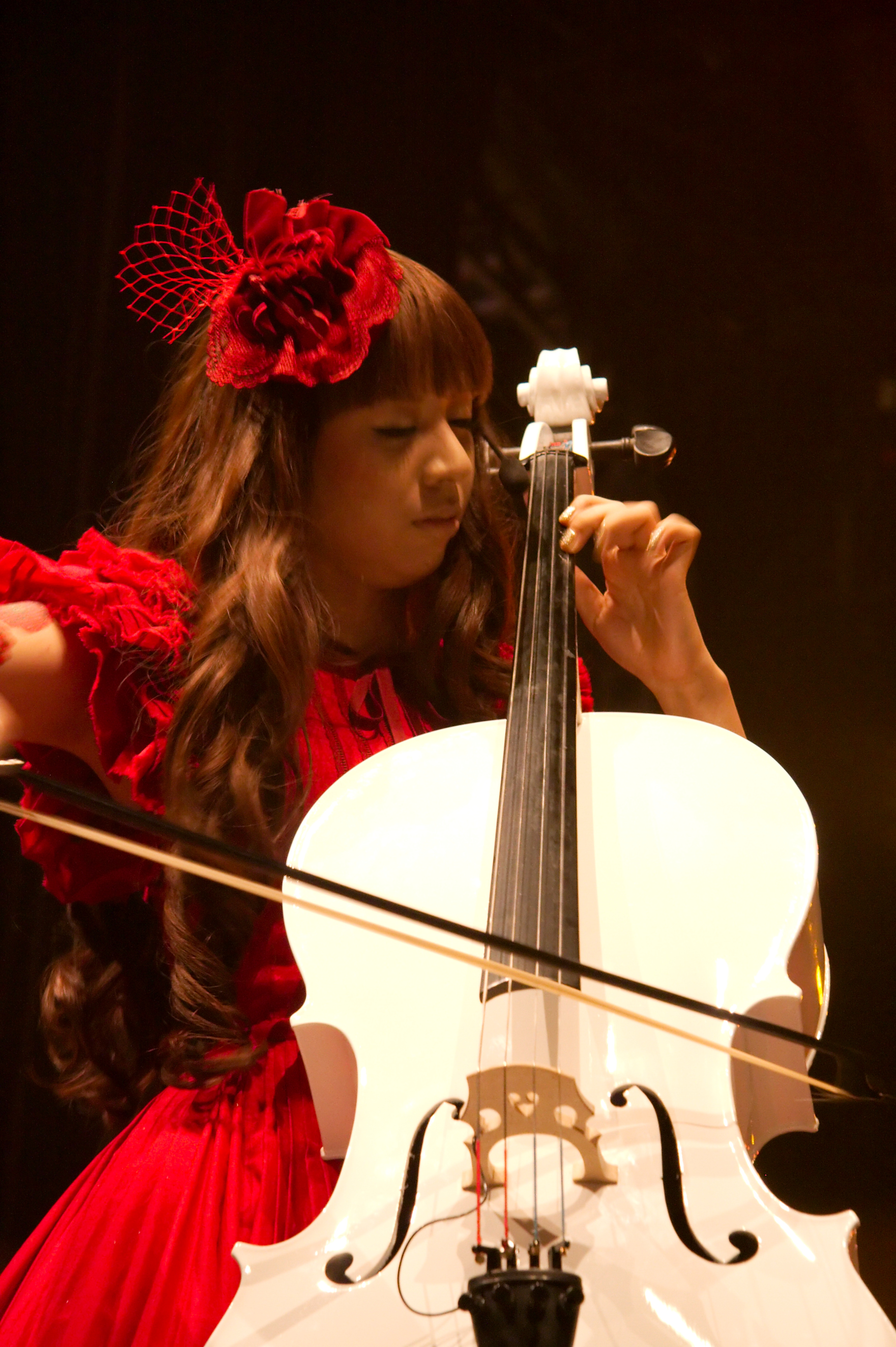 Kanon Wakeshima live at Japan Expo 2009 (Paris, France)